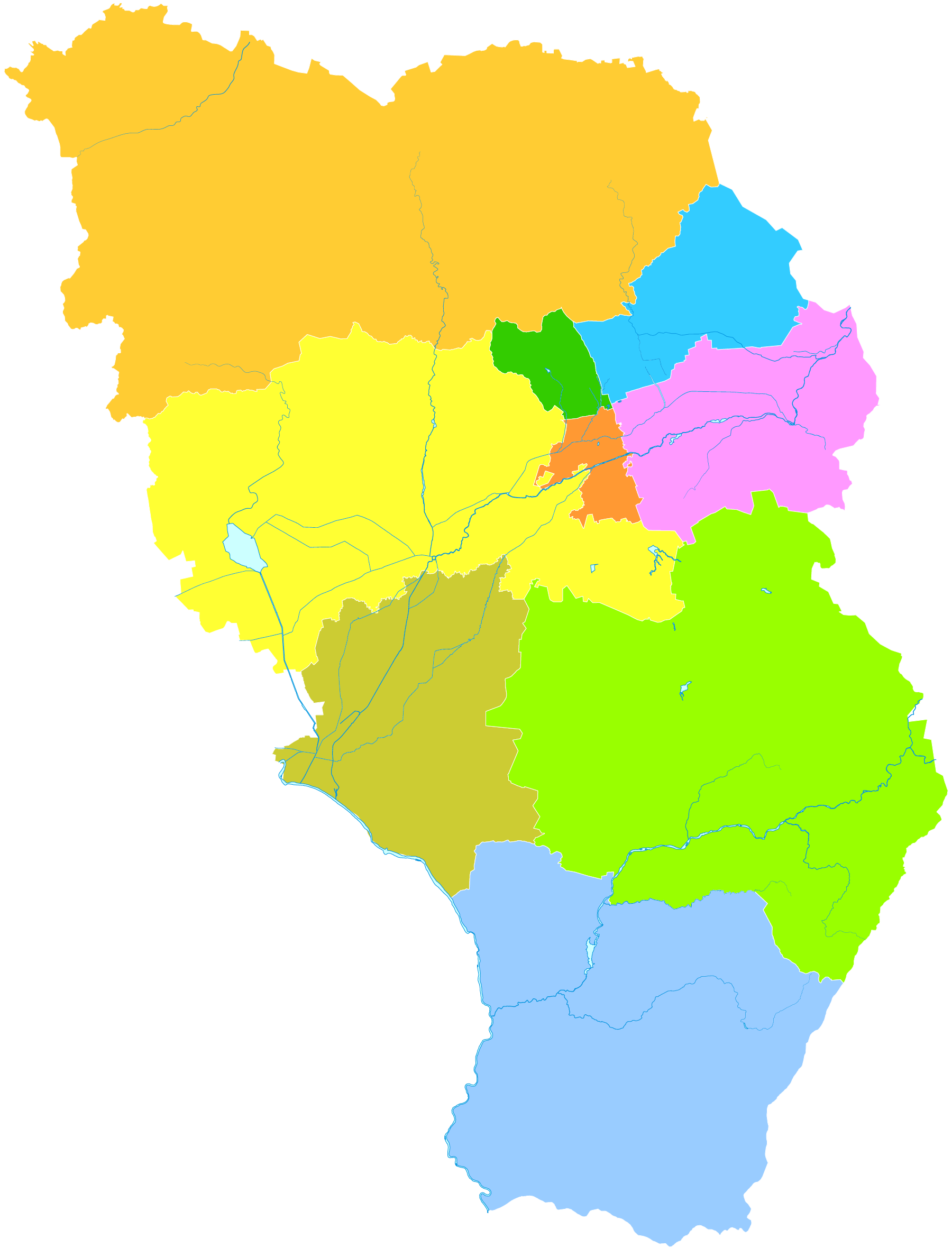 administrative divisions of Hohhot City, Inner Mongolia, China